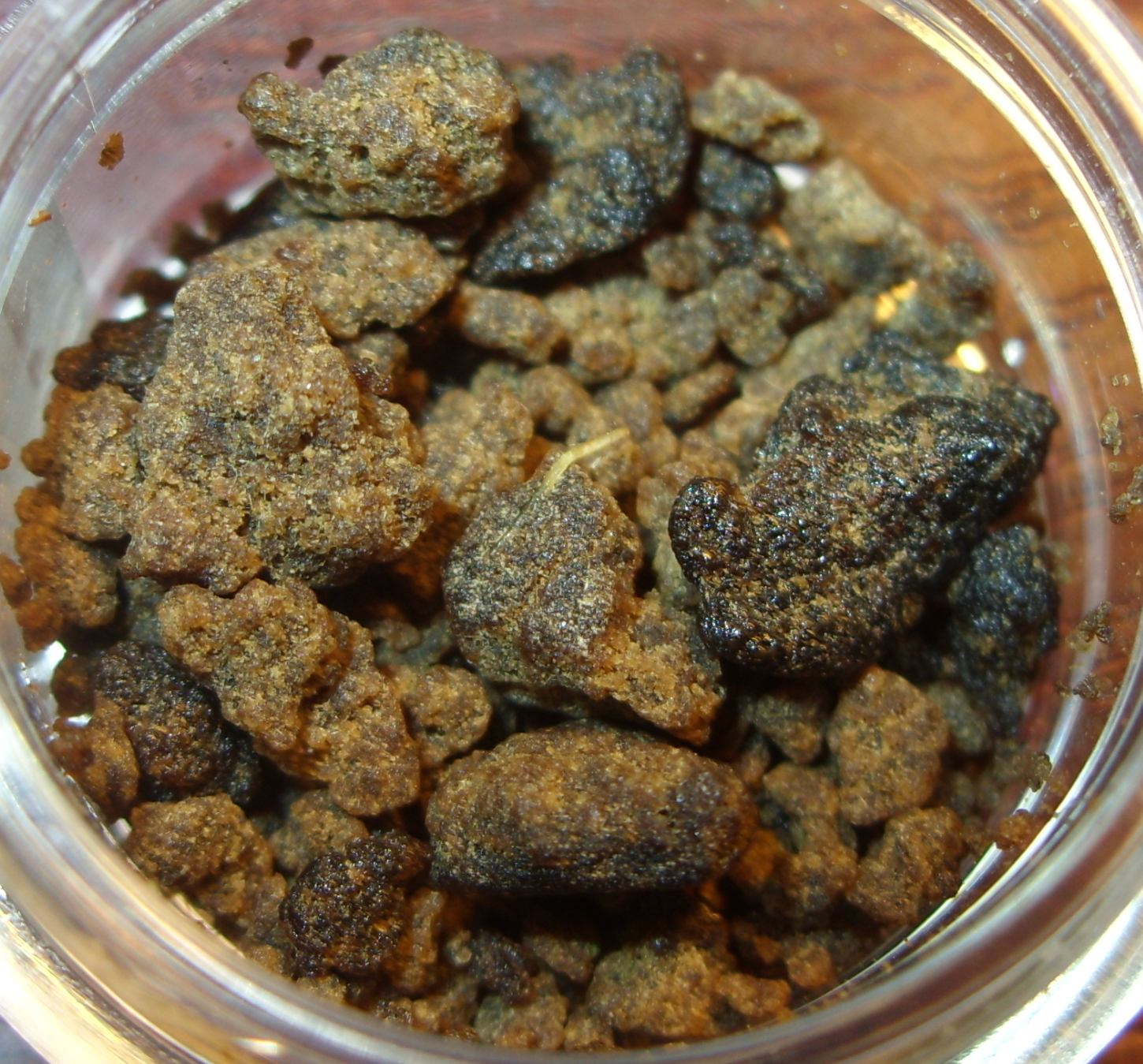 Cannabis trichomes, cured and concentrated